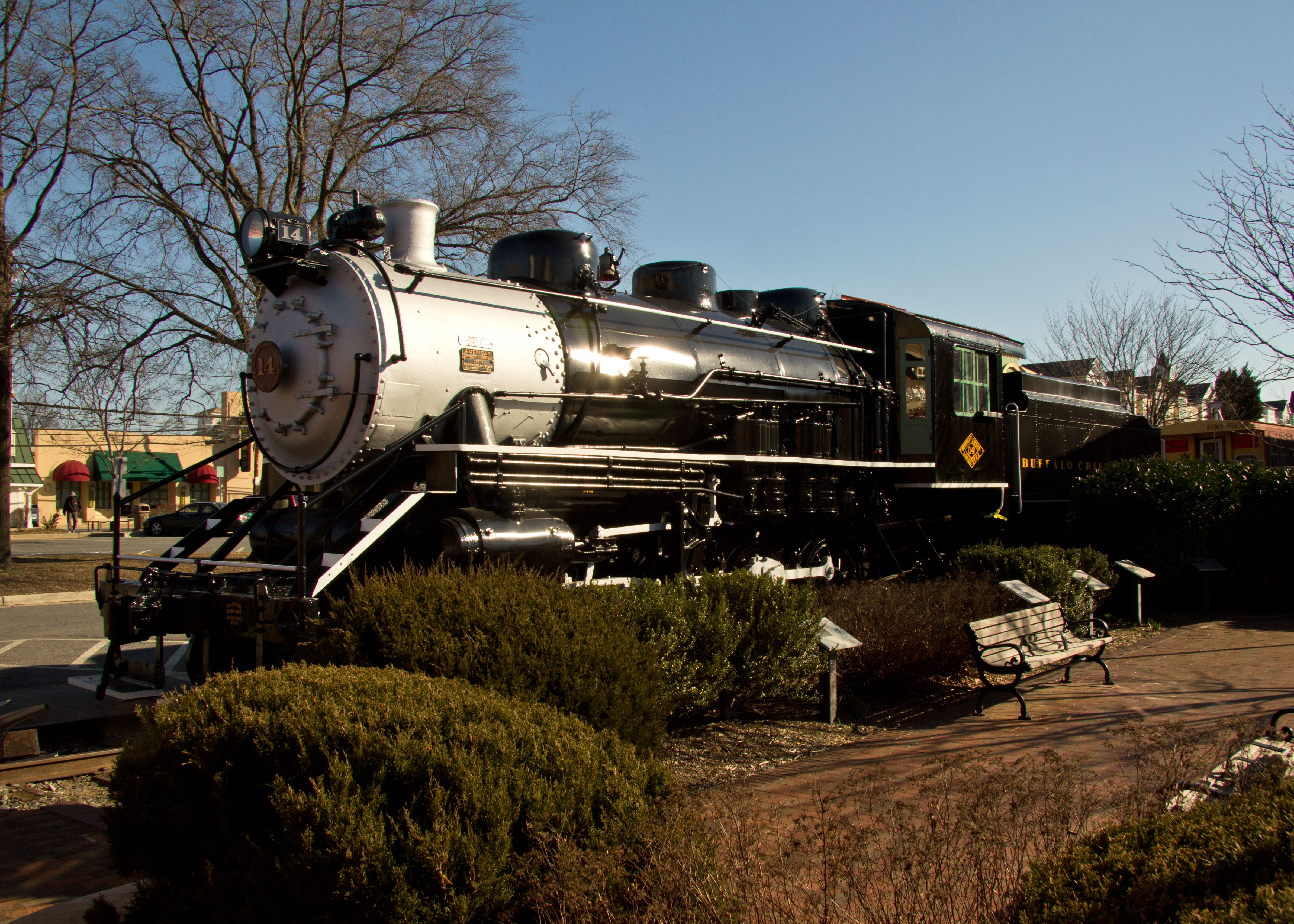 A Buffalo Creek and Gauley 2-8-0 is one of the pieces of railroad equipment on display in History Park in Gaithersburg, MD. The park is located next to the Gaithersburg MARC station.